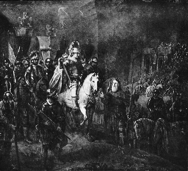 This image is available from the Netherlands Institute for Art Historyunder digital ID 204157. This tag does not indicate the copyright status of the attached work. A normal copyright tag is still required. See Commons:Licensing.